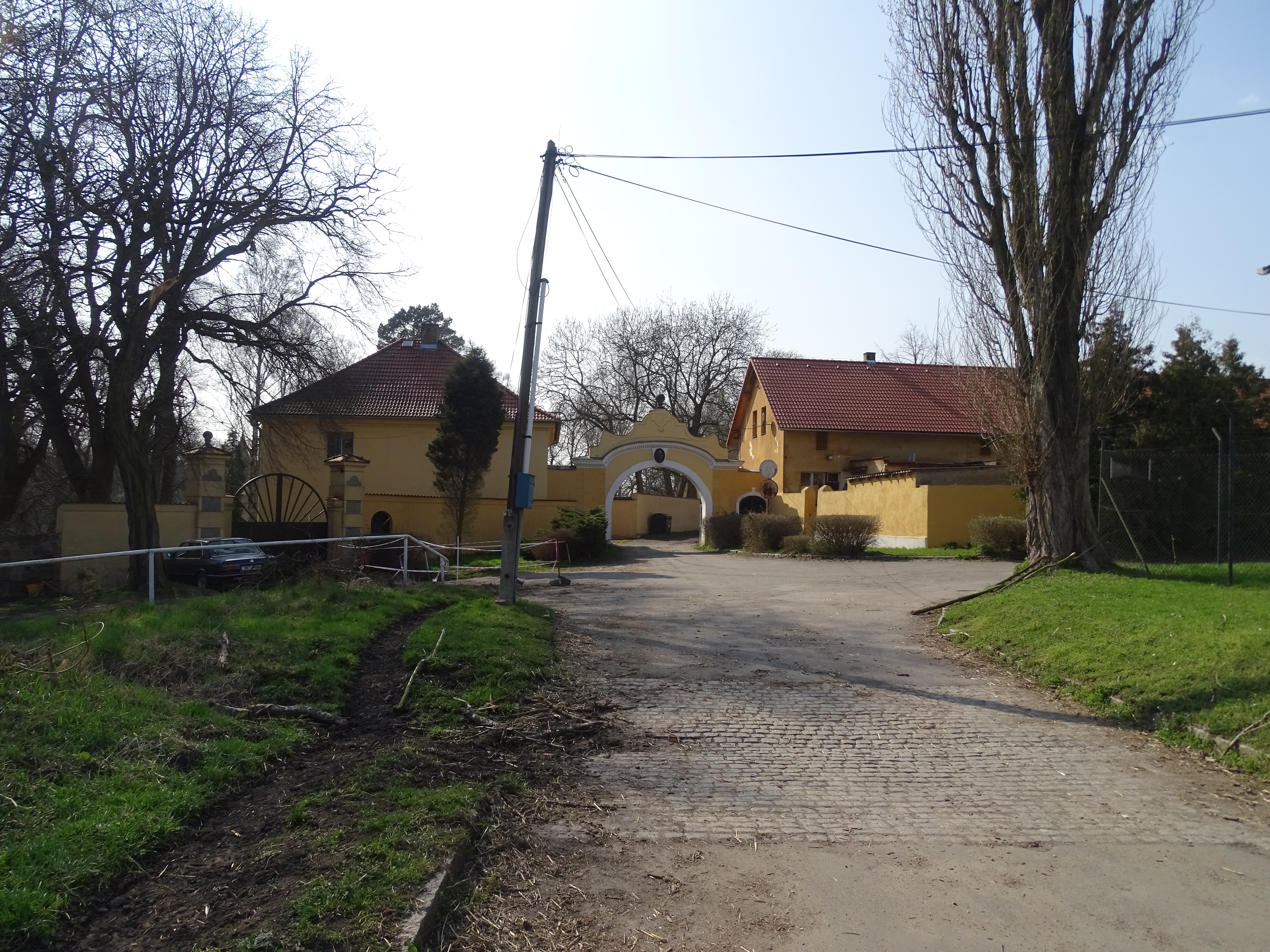 Prague-Horní Počernice, Czech Republic. Václava Špačka 1619/6, 1918/4.